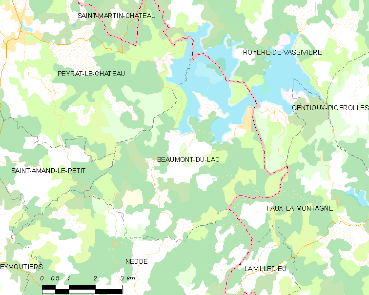 Map of French municipality Beaumont-du-Lac